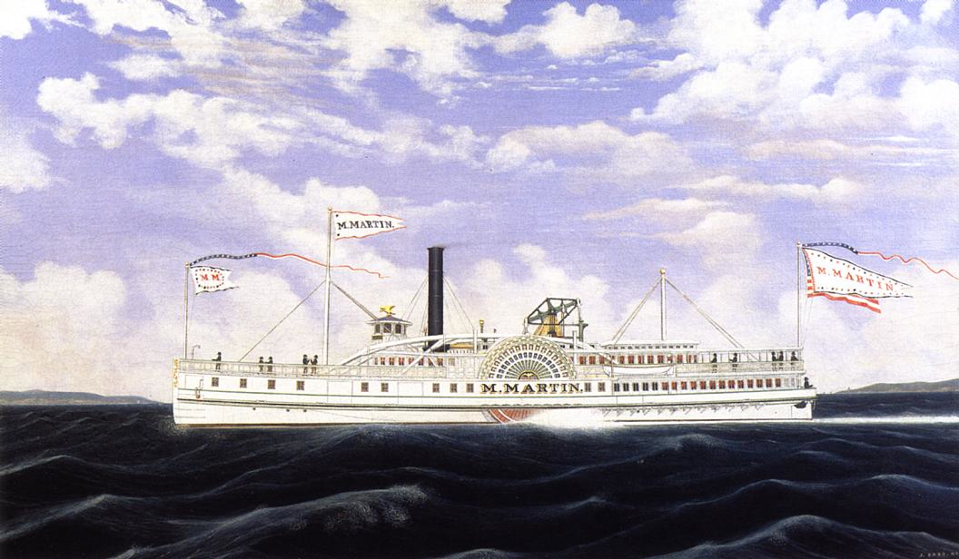 Milton Martin, Hudson River steamboat, built 1863, served in American Civil War as dispatch vessel for General Grant, returned to Hudson River where remained in service until 1922. Oil on canvas by James Bard (note: source states that this image is a "reproduction".)